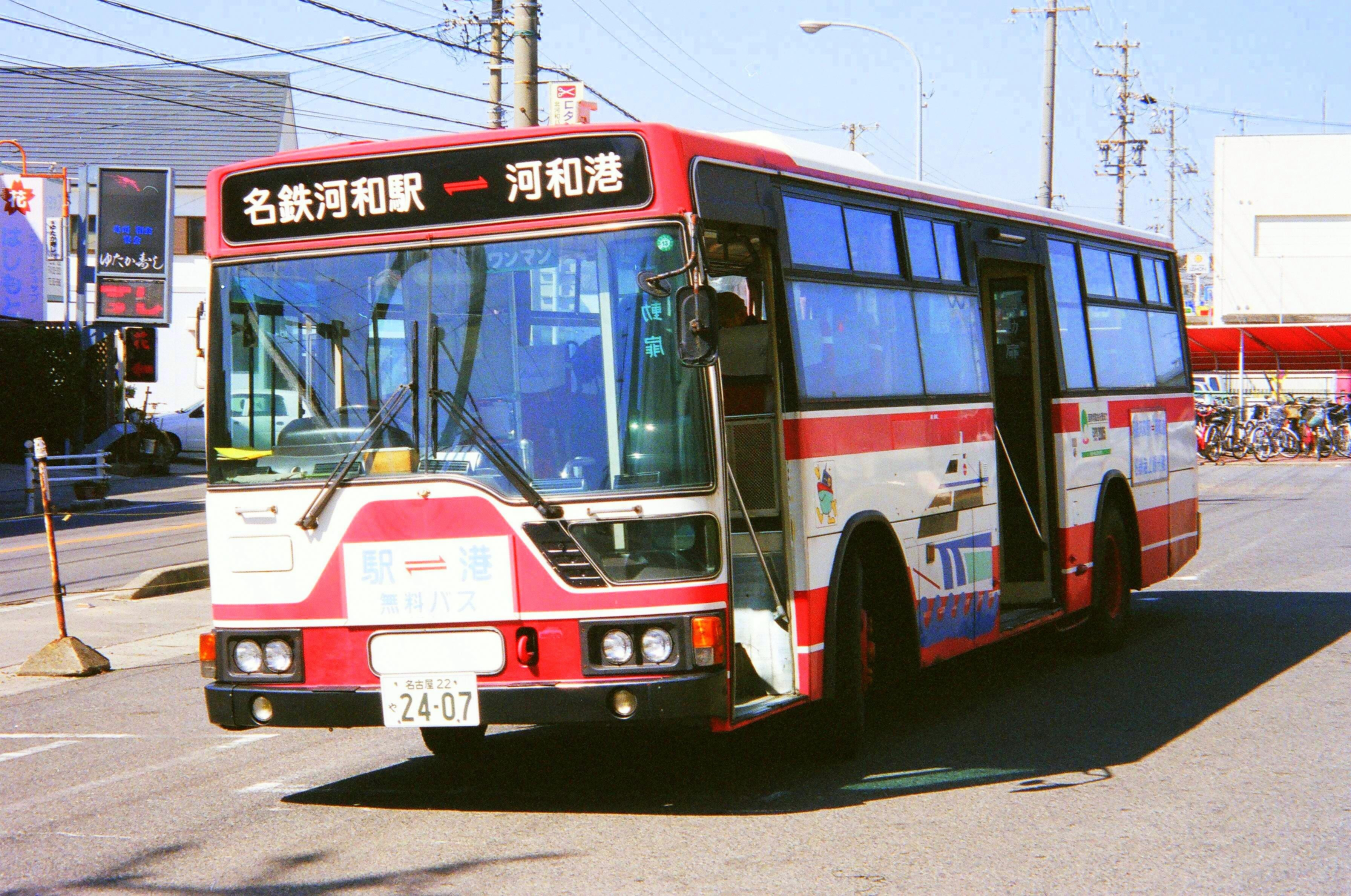 Chita Noriai bus Fuso Aero Star M.